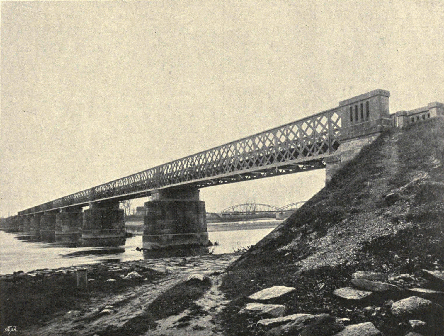 Bridge over the Sava near Zagreb (built in 1862)